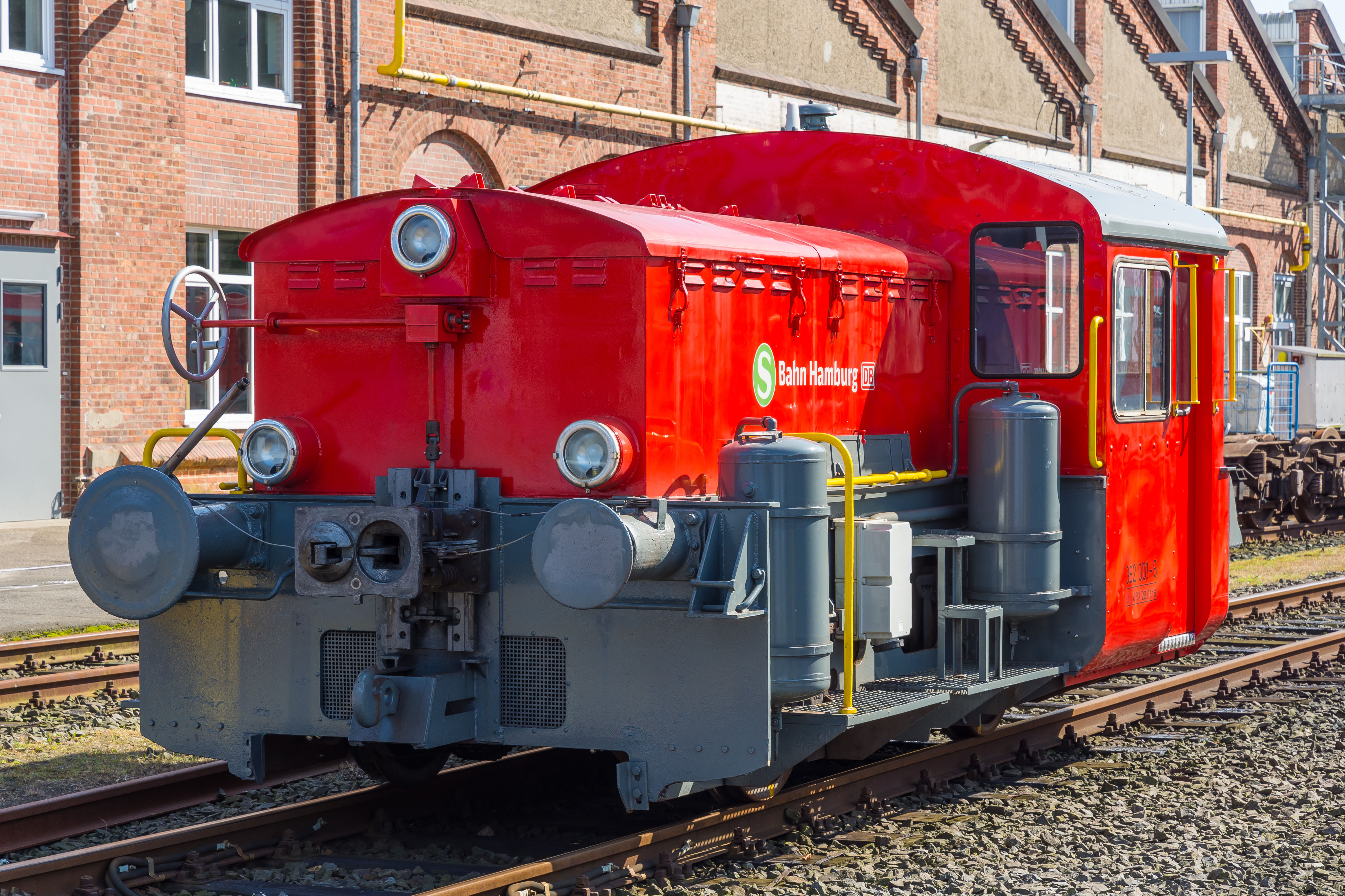 DB class 382 shunter (382 001-6), property of the Hamburg S-Bahn, at the maintenance worksjop in Hamburg Ohlsdorf.